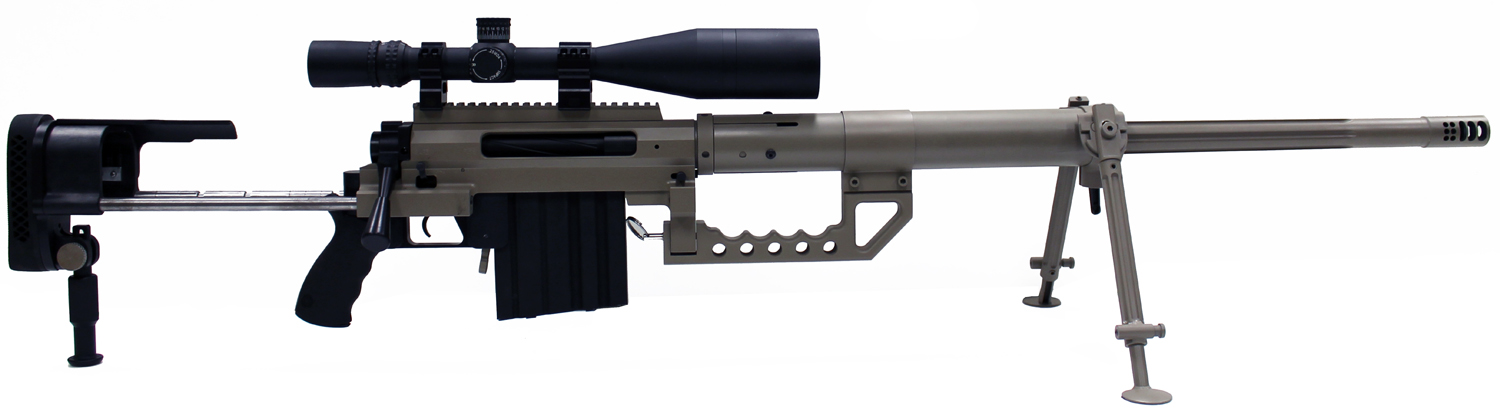 THOR M408 Rifle by THOR Global Defense Group